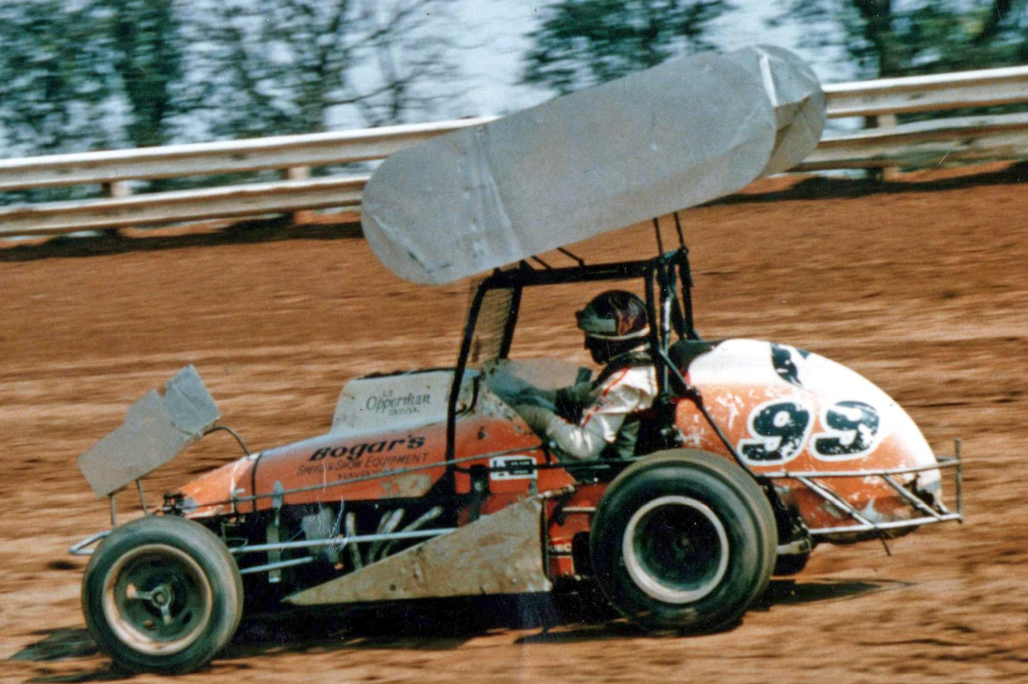 Jan Opperman driving a winged sprint car in the 1970's